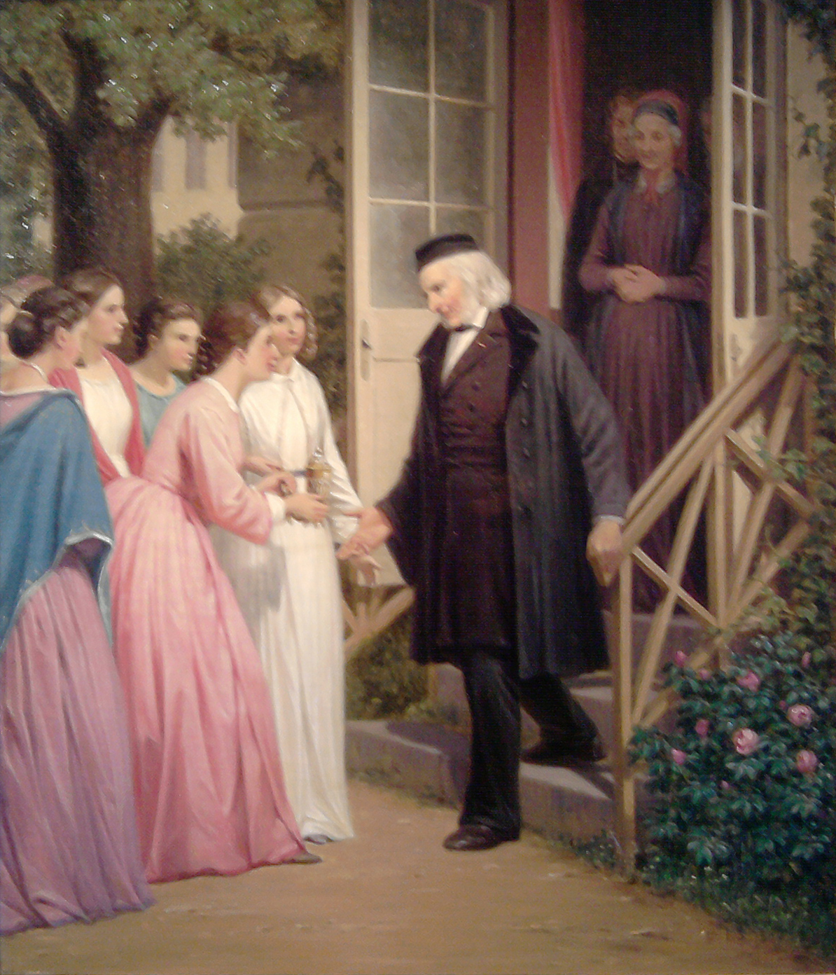 The poet B. S. Ingemann receiving a golden horn from the women of Denmark on his 70 years birthsday}. Title of painting: "Bernhard Severin Ingemann modtager et Guldhorn af unge Kvinder paa sin 70aarige Fødselsdag 28 Maj 1859"